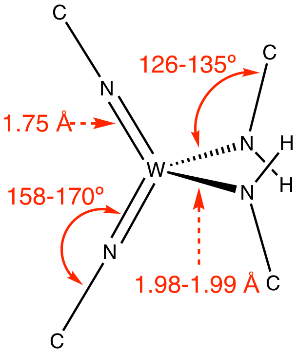 Structure of core of W(NAr)2(NArH)2